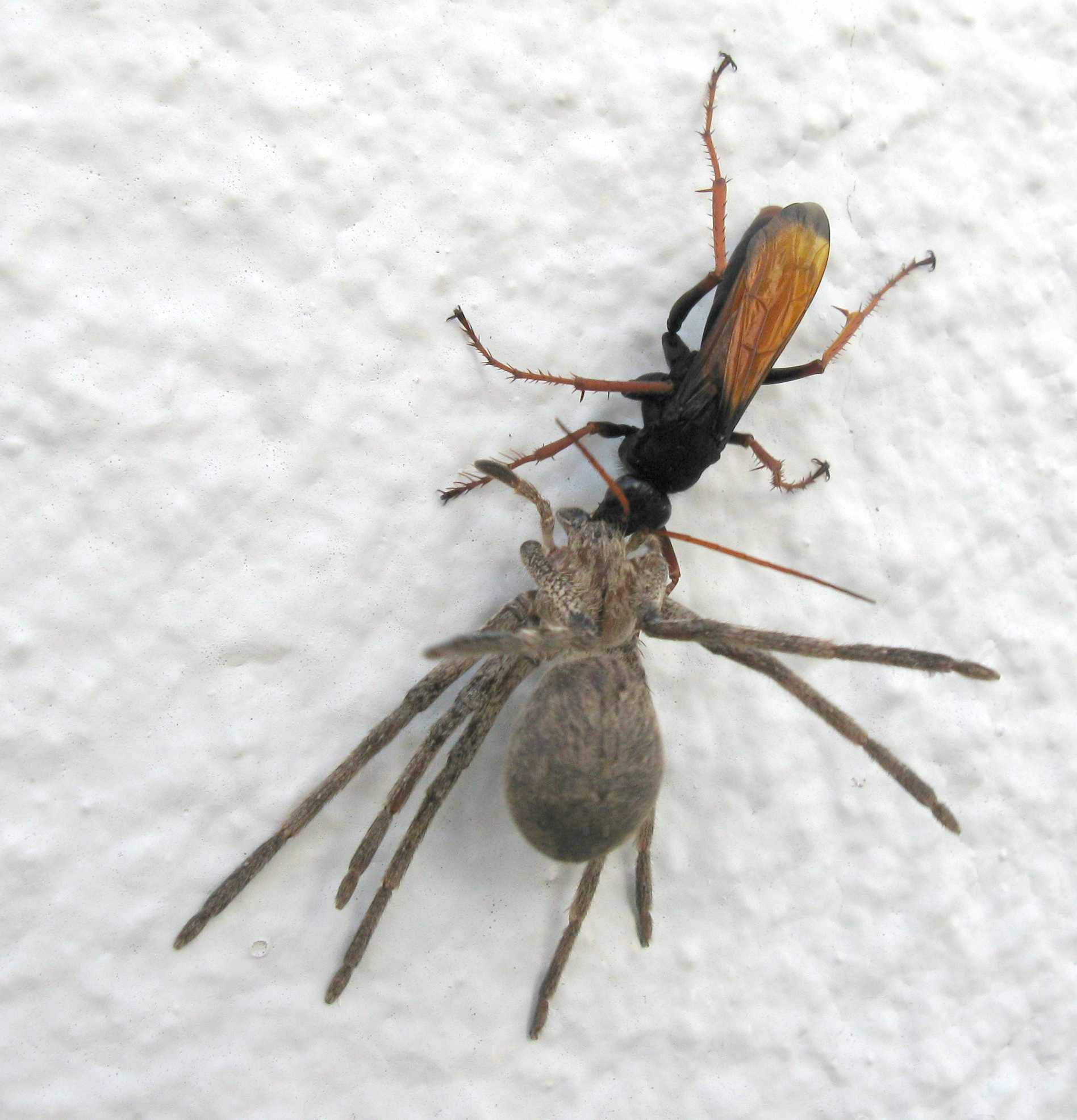 Tachypompilus ignitus dragging Palystes prey up a vertical wall. Her body is about 45—50 mm long. The species is at least largely a specialist hunter of mature Palystes females.[1]